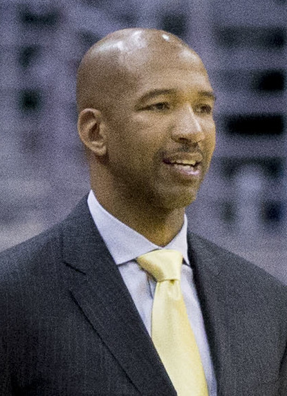 Pelicans at Wizards 2/22/14